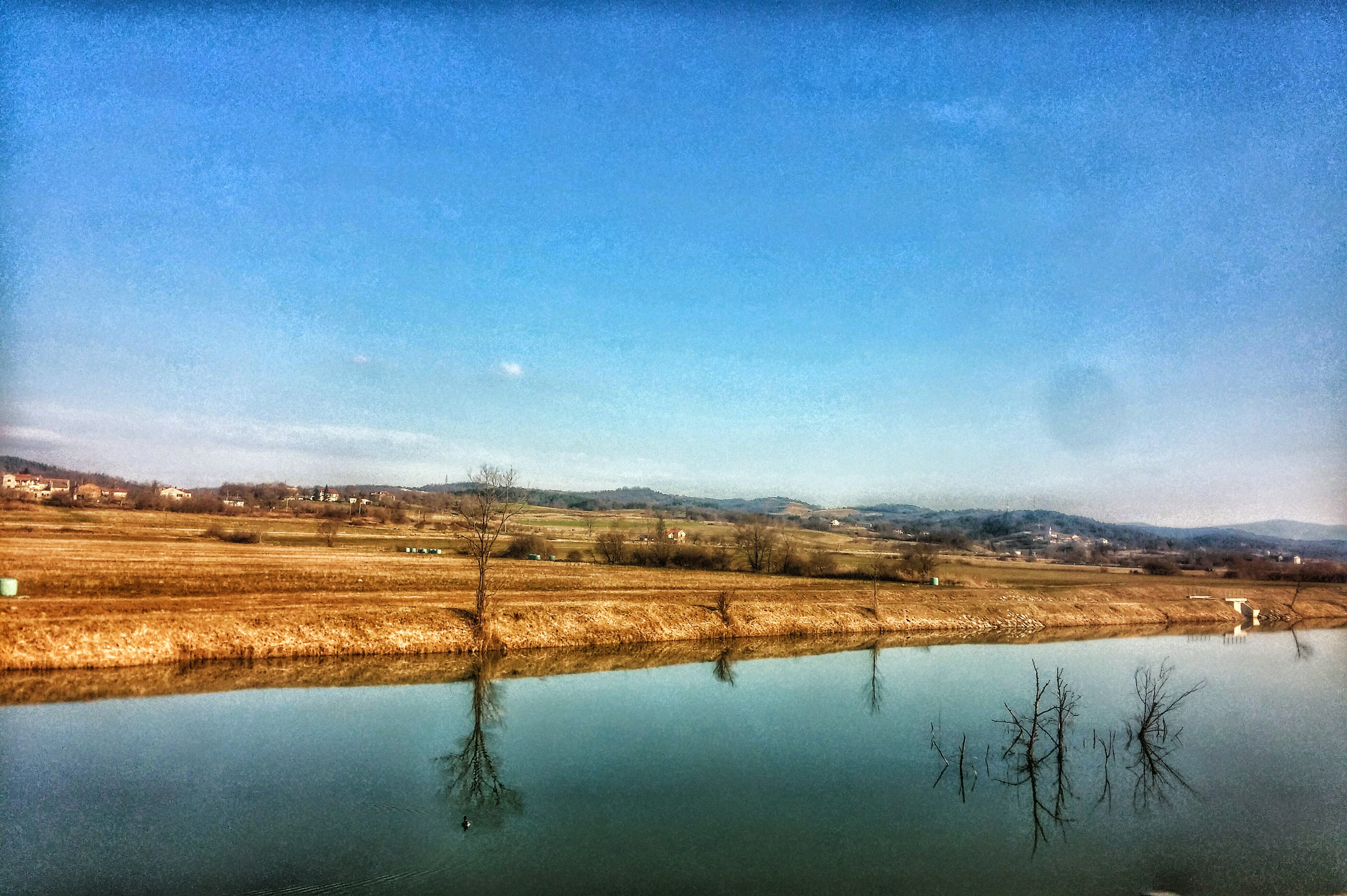 Near Novaki Pazinski there are ponds, the most famous and the richest water fish in central Istria.